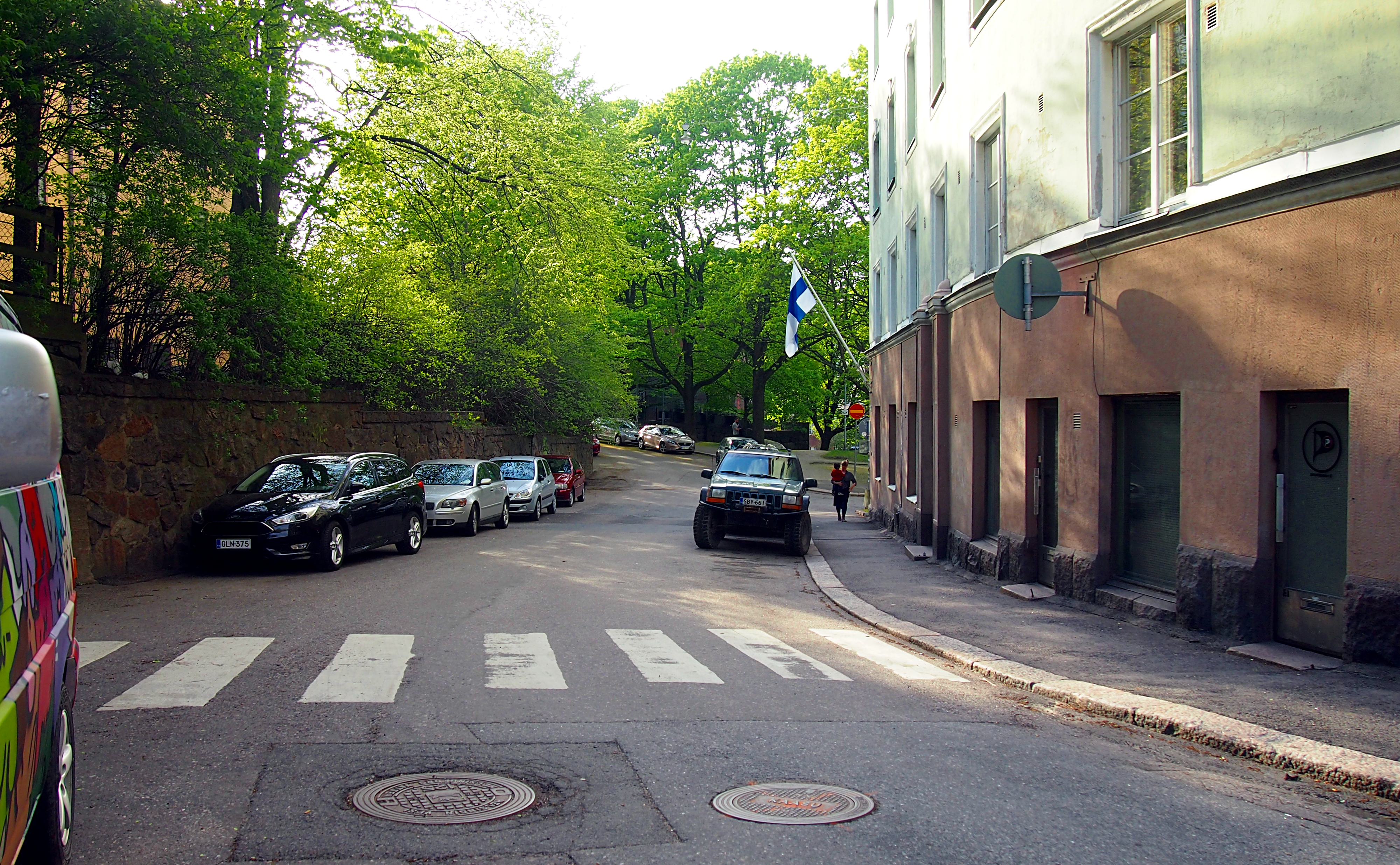 The street Franzéninkatu, Kallio, Helsinki, Finland